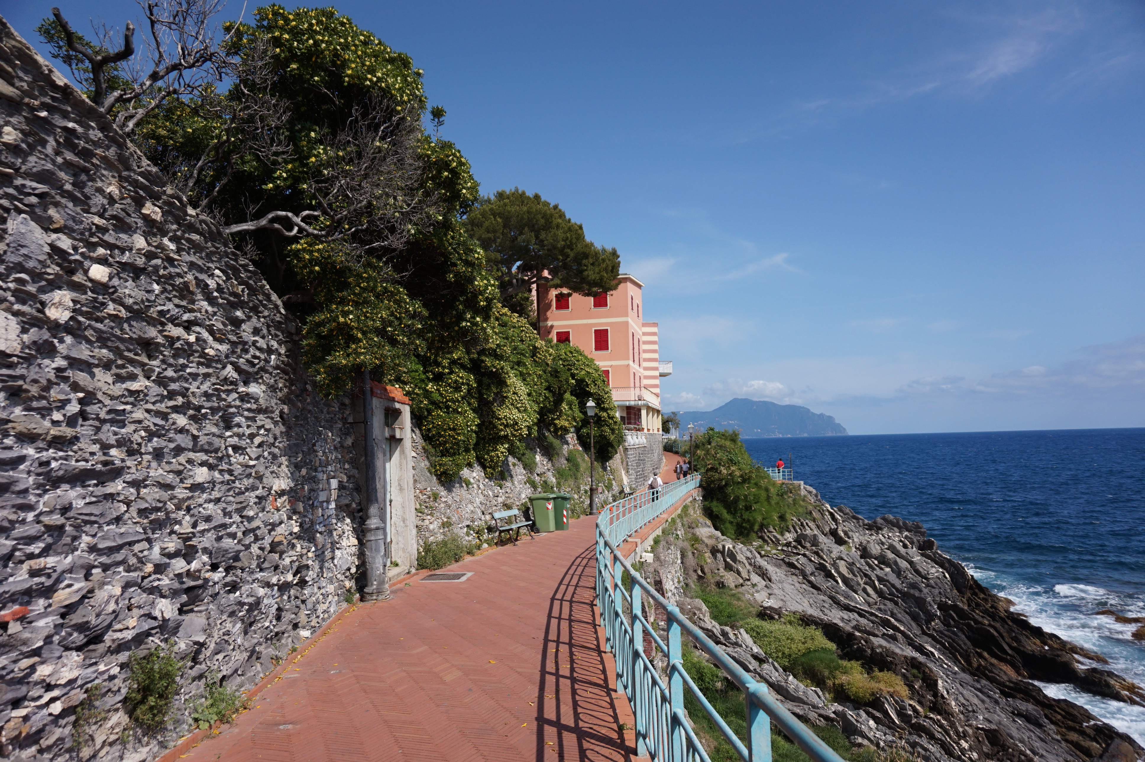 The street Passeggiata Anita Garibaldi in Nervi. This photograph was taken with a Sony Alpha a5000.